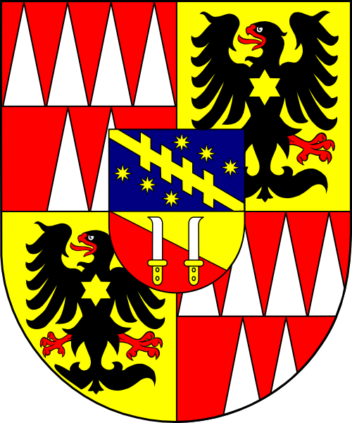 Coat of arms (shield only) of Franz Seraph Cardinal von Dietrichstein, bishop of Olomouc, Czech Republic (1599 - 1636). Version with the escutcheon per fess: pope Clement VIII, Dietrichstein.